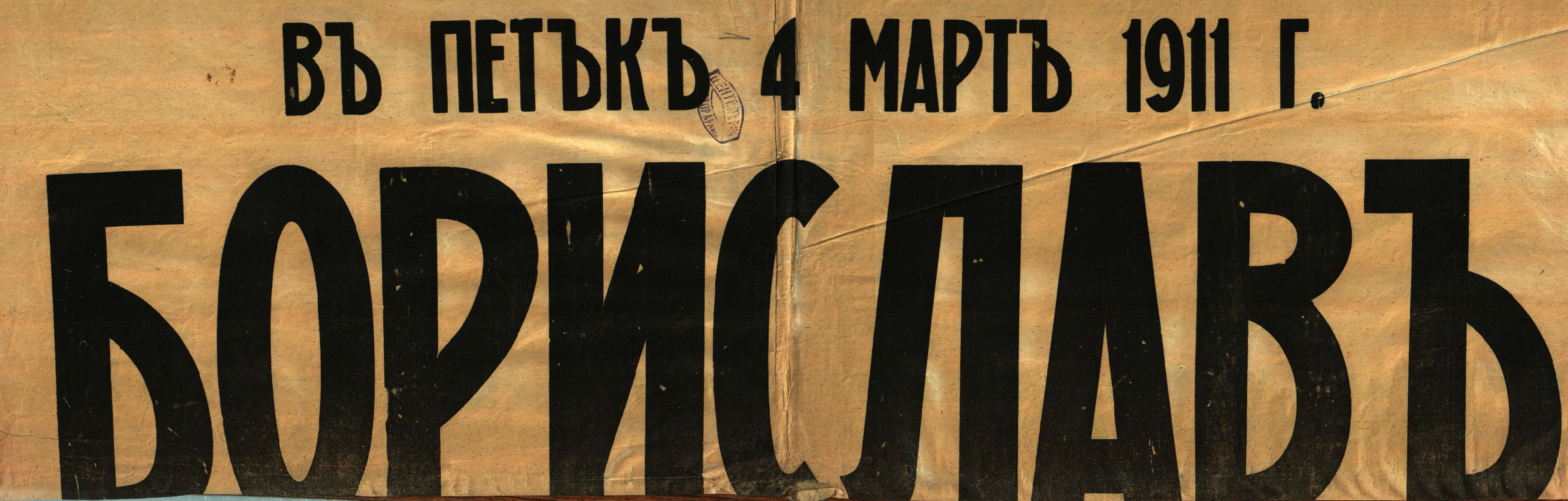 Bulgarian opera „Borislav“